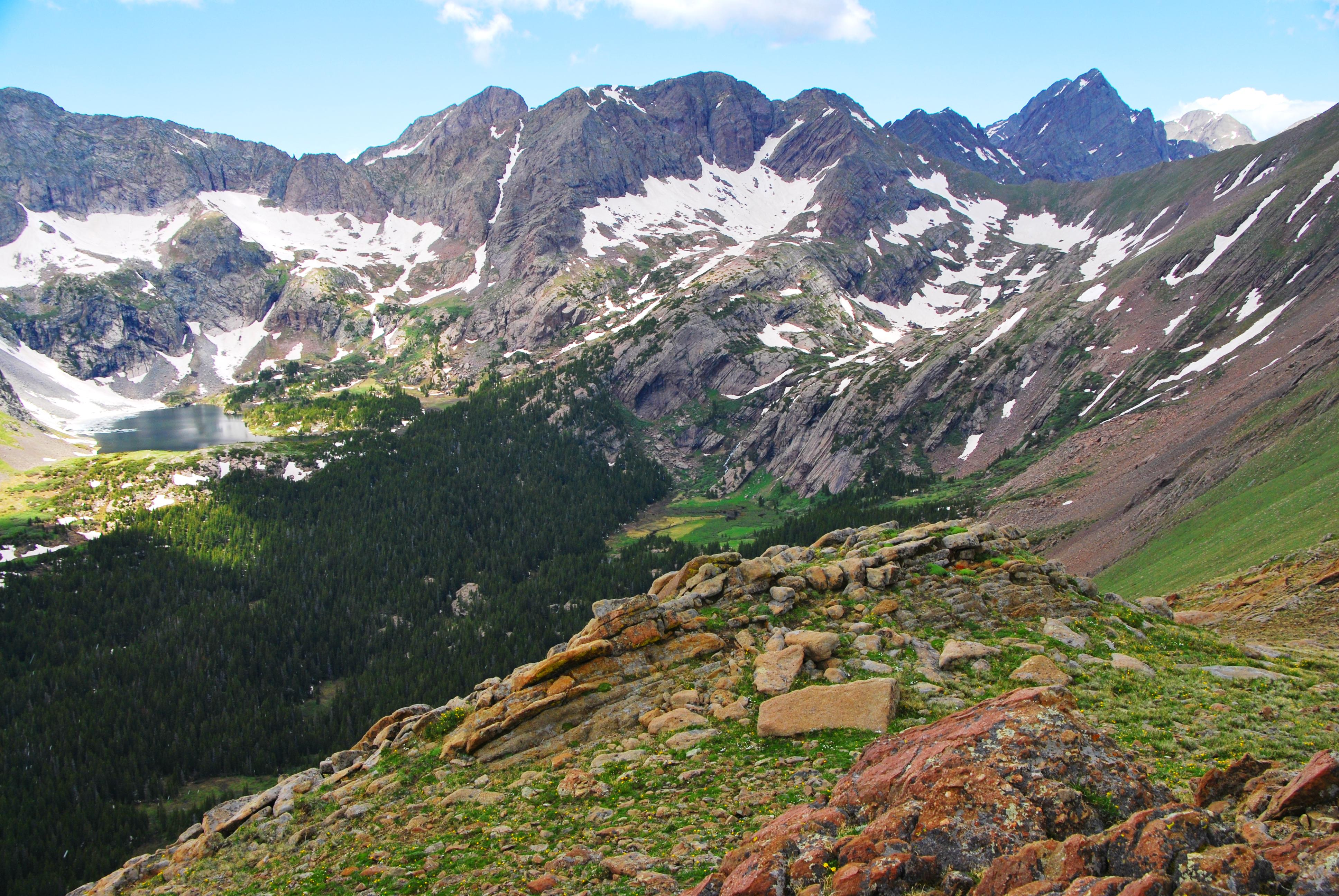 NPS/Patrick Myers